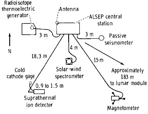 Arangement for Apollo 12's ALSEP.